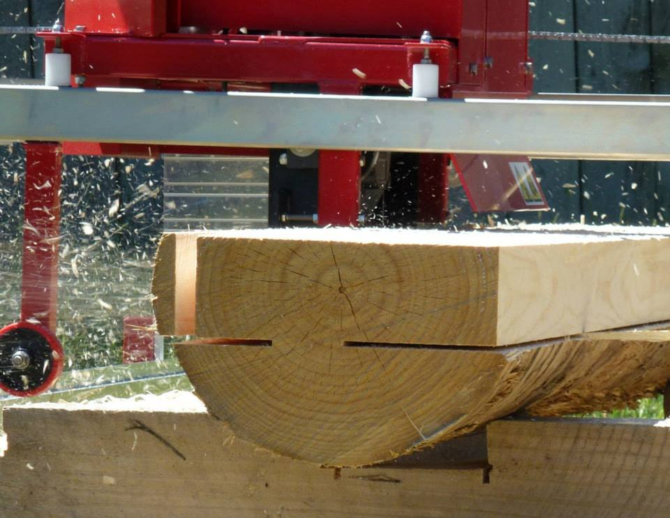 Cutting lumber with a swingblade sawmill - removing edge piece and half-deep horizontal cut